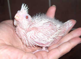 Whiteface-lutino chick age 3 weeks